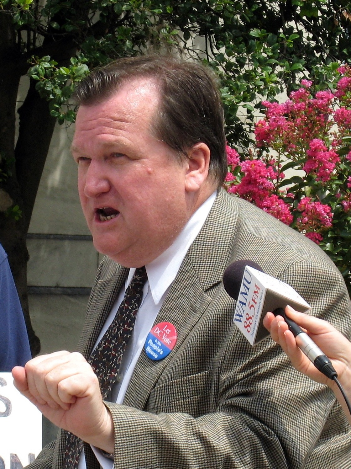 Michael D. Brown, D.C. shadow senator, at voting rights rally on Capitol Hill.